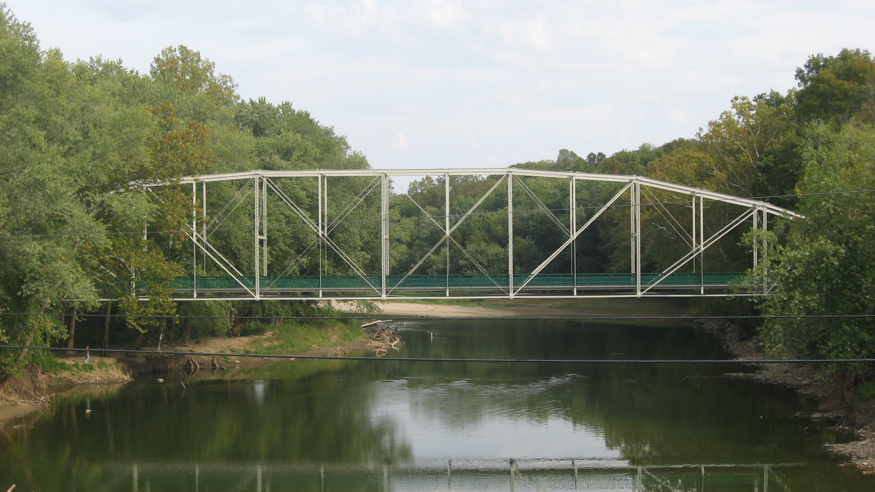 Western (downstream) side of the Secrest Ferry Bridge, which once carried County Road 450E over the White River south of Gosport across the Monroe/Owen county line in the U.S. state of Indiana. Built in 1903, this Pennsylvania through truss bridge is listed on the National Register of Historic Places.